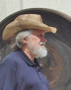 The artist David Cantine, photographed at an exhibition of Peter Hide's sculptures outside the Royal Alberta Museum, June 2008.